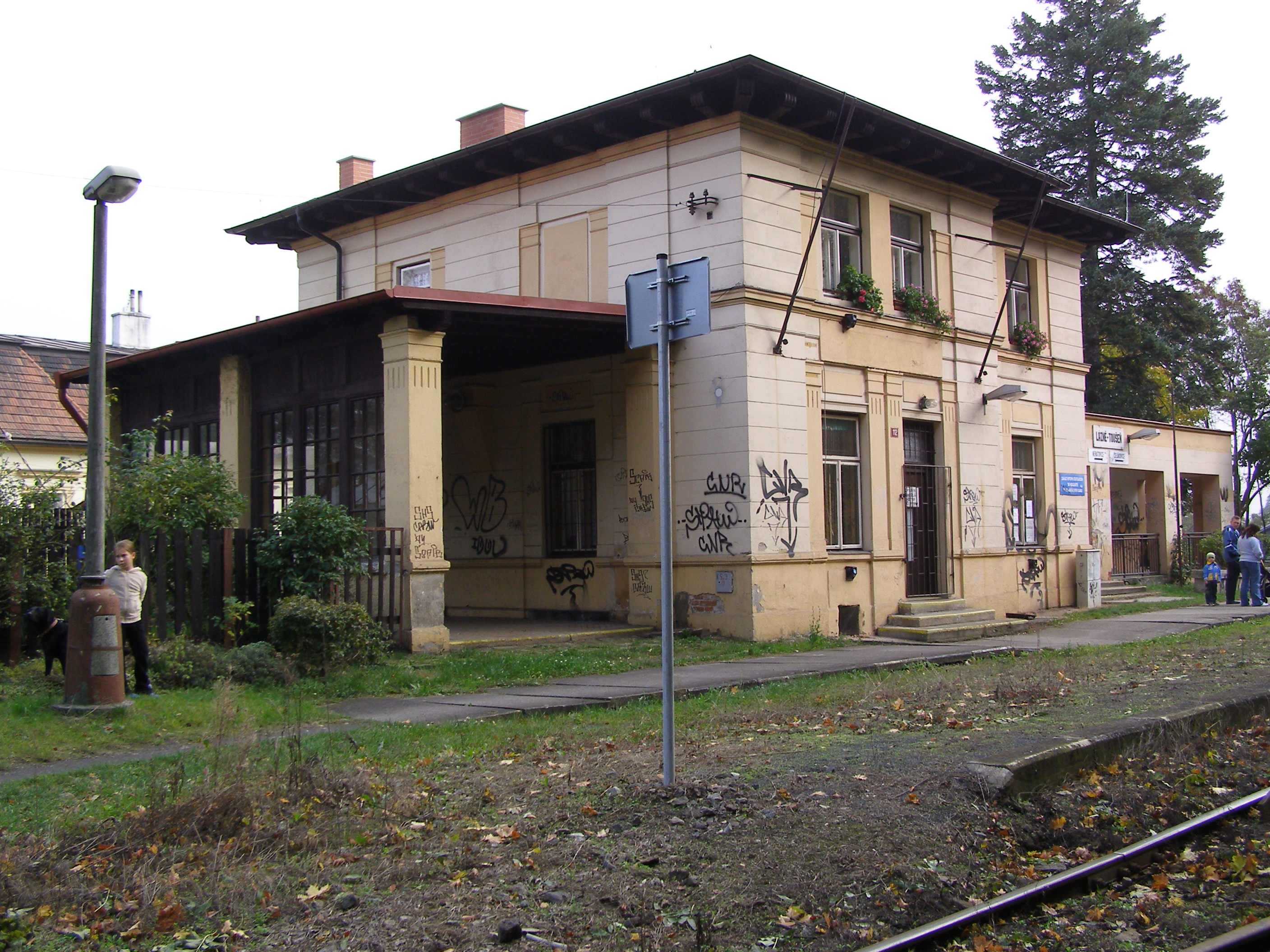 Lázně Toušeň - rail station